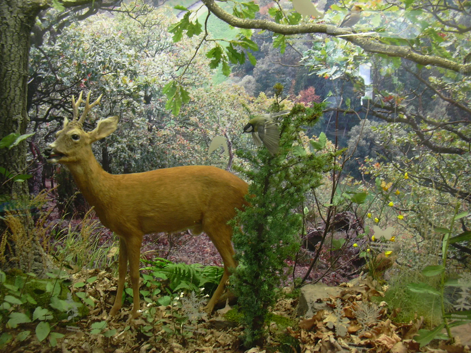 Gemünd, Northrhine-Westphalia; Gate to the Eifel National Park, permanent exhibition